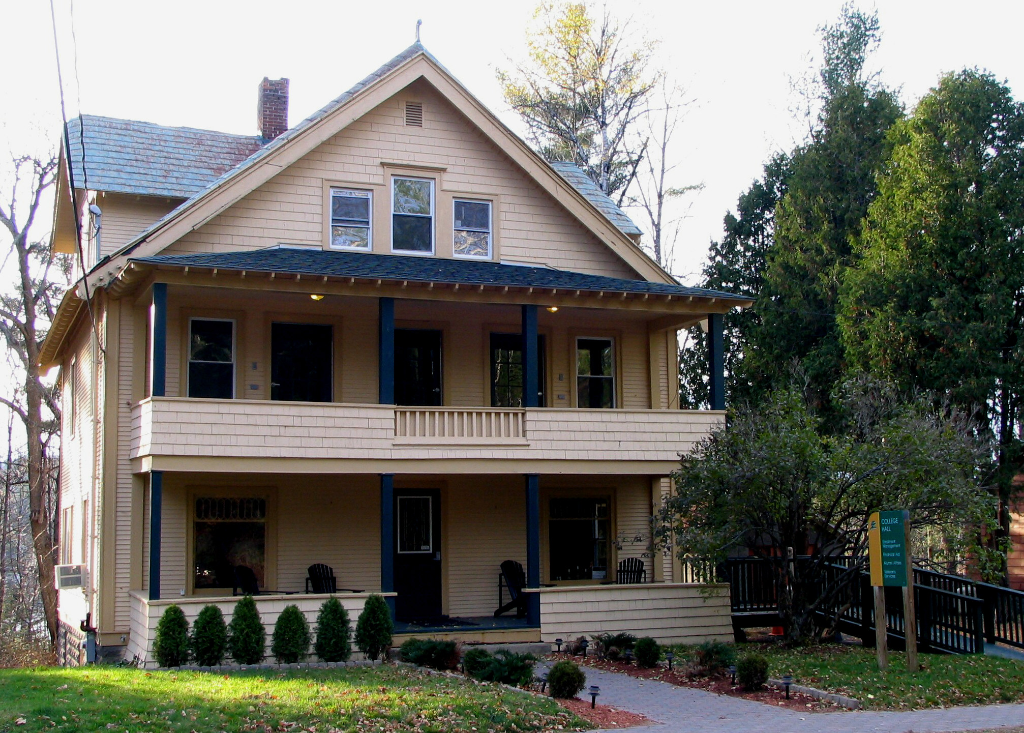 College Hall, North Country Community College. Taken by User:Mwanner, 4 November 2007